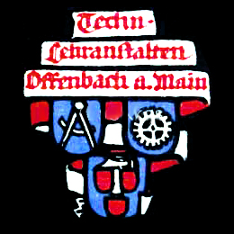 Logo of the Technische Lehranstalten Offenbach, c. 1908. From a stamp from my personal collection